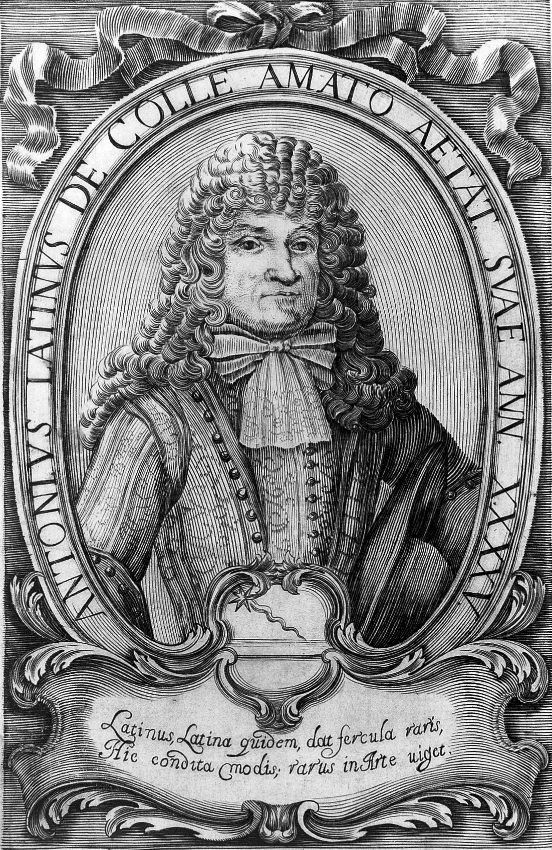 Portrait of Antonio Latini. Rare Books Keywords: Antonio Latini